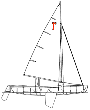 Boat sides view - swordboat (a drawing off "Pirat") own drawing (Botaurus-stellaris)